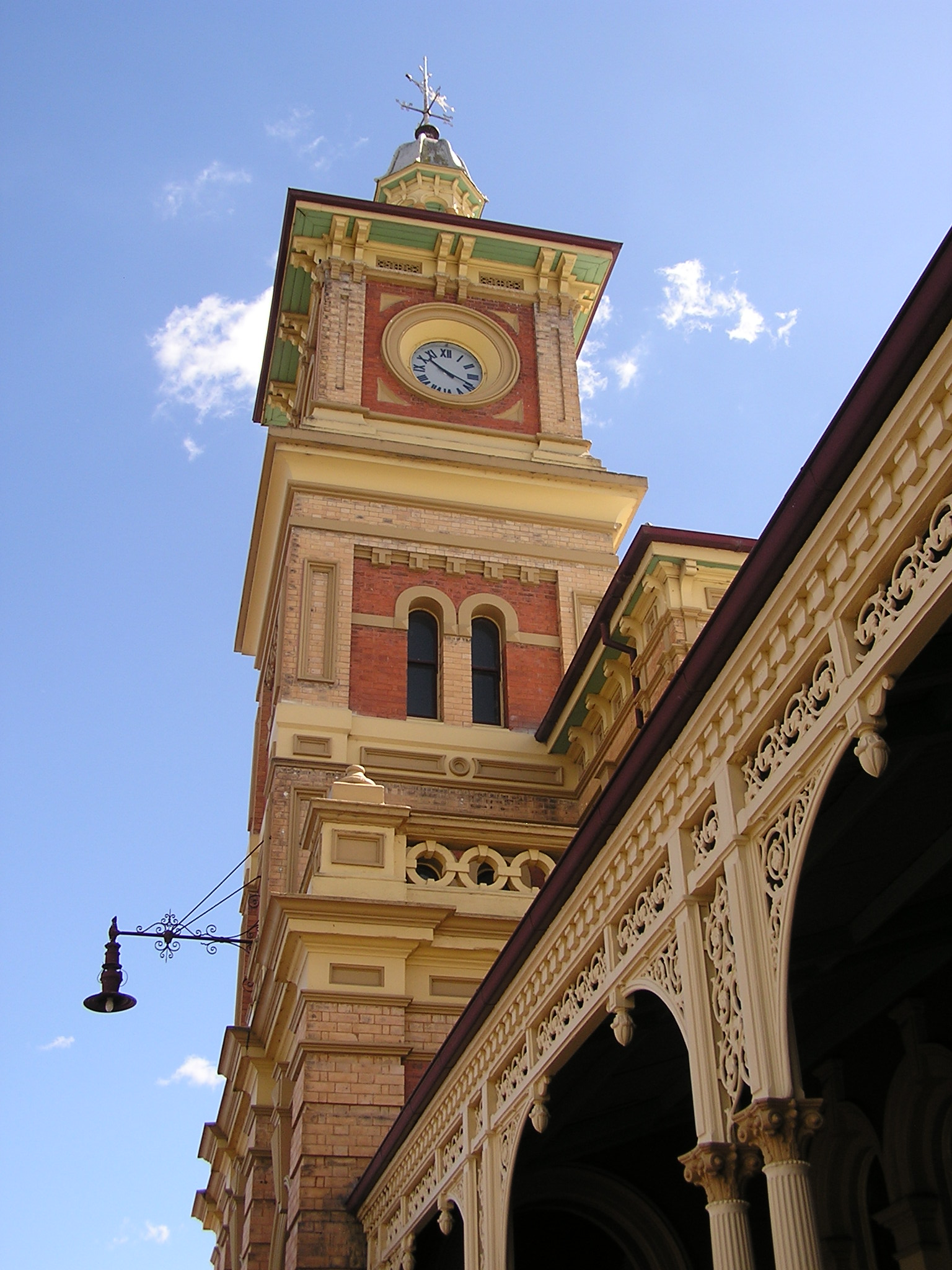 Albury Railway Station Picture taken by AYArktos